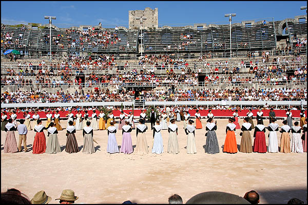 The opening ceremony of the 75th Cocarde d'Or held in Arles, France